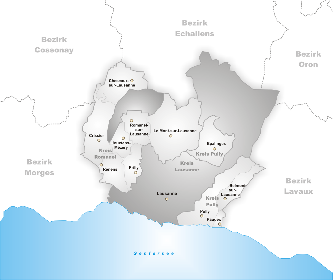 Municipality Lausanne